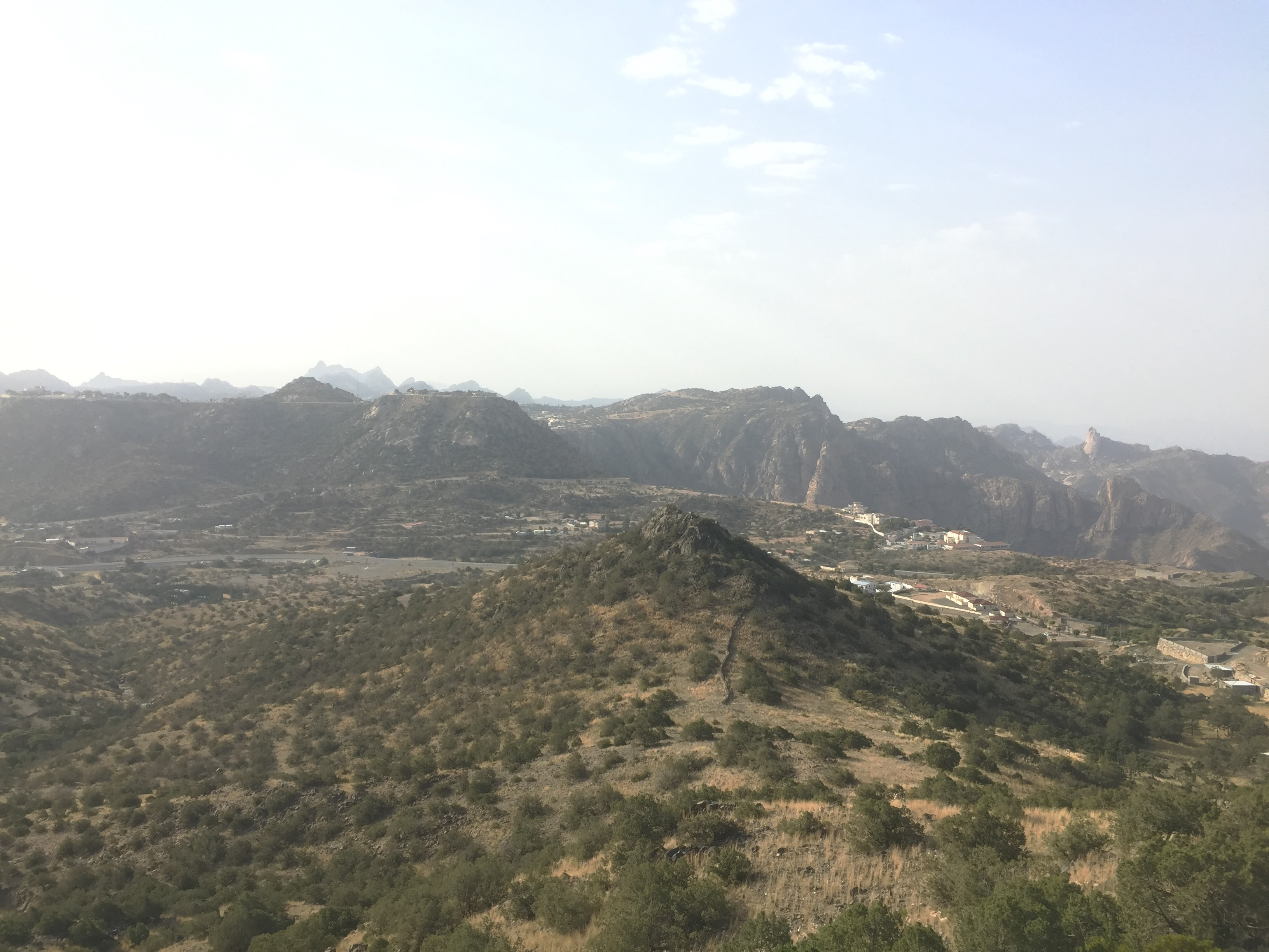 Taken from the top of Jabal Dakka, Al Shafa